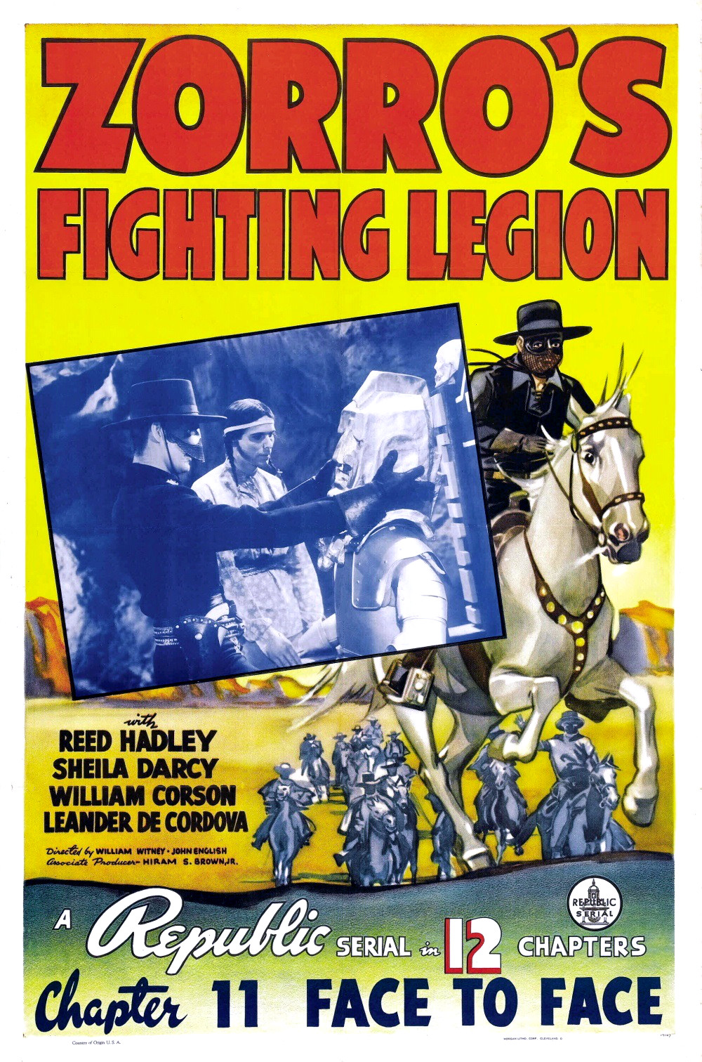 Poster for the 1939 film Zorro's Fighting Legion.